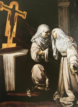 Saint Catherine of Siena